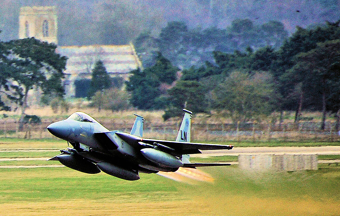 An F-15C Eagle from the 493rd Fighter Squadron takes off from Royal Air Force Lakenheath, England, March 6, 2014. The 48th Fighter Wing sent an additional six aircraft and more than 50 personnel to support NATO's air policing mission in Lithuania, at the request of U.S. allies in the Baltics. (U.S. Air Force photo by Staff Sgt. Emerson Nunez/Released)